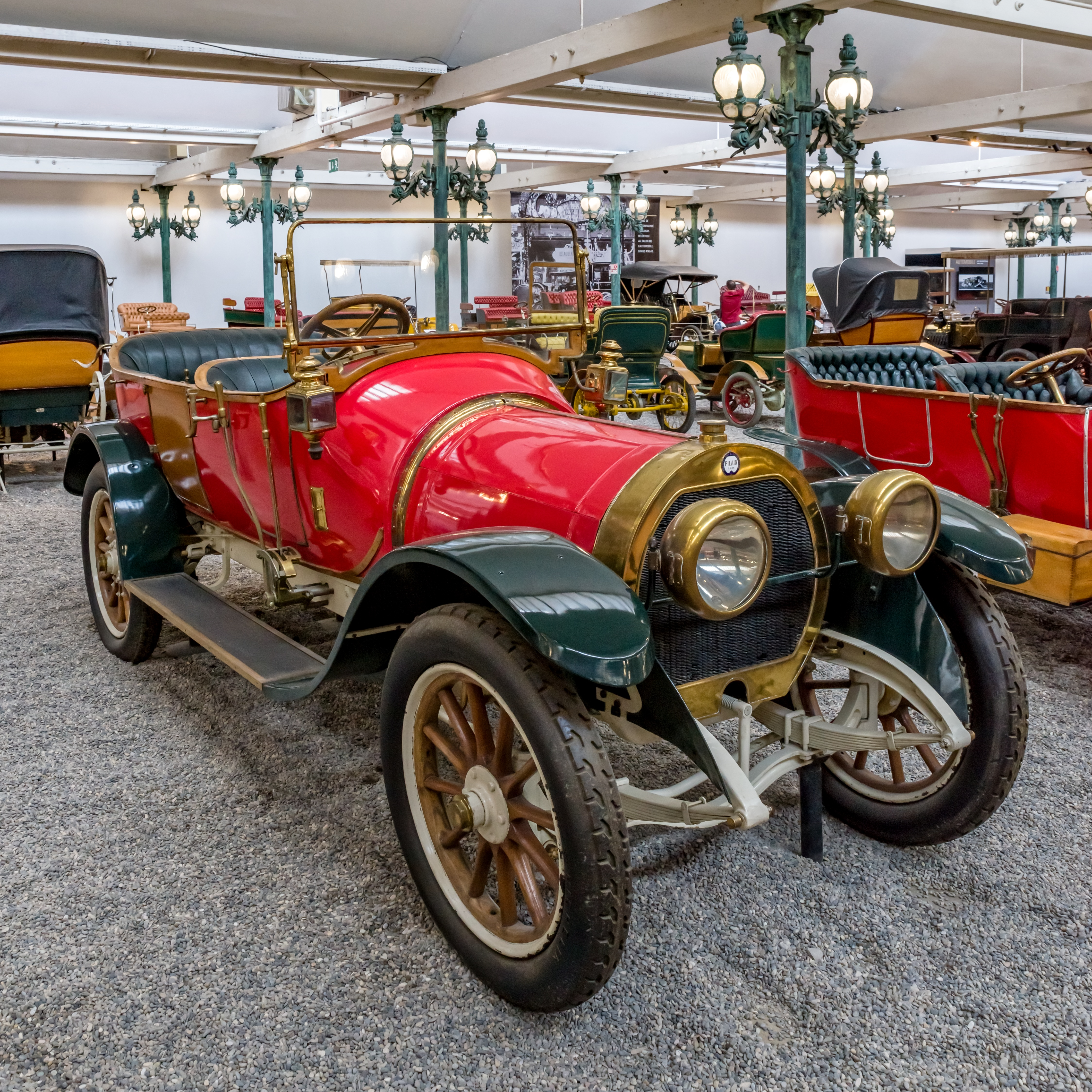 pictures from the Cité de l’Automobile – Musée National – Collection Schlump in Mulhouse, France ptictures from the 10. may 2018